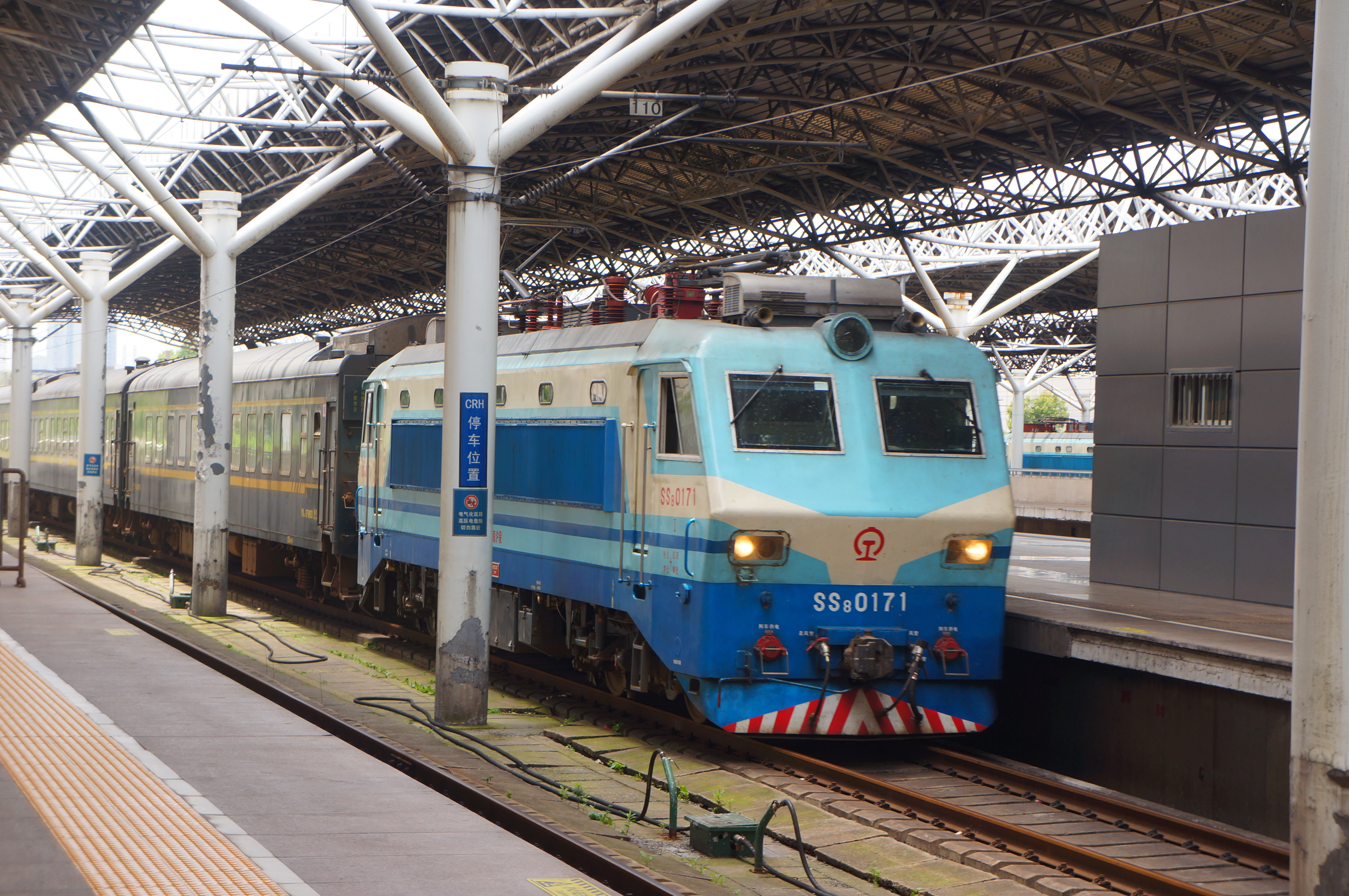 201806 SS8-0171 hauls K760 enters into Shanghainan Station